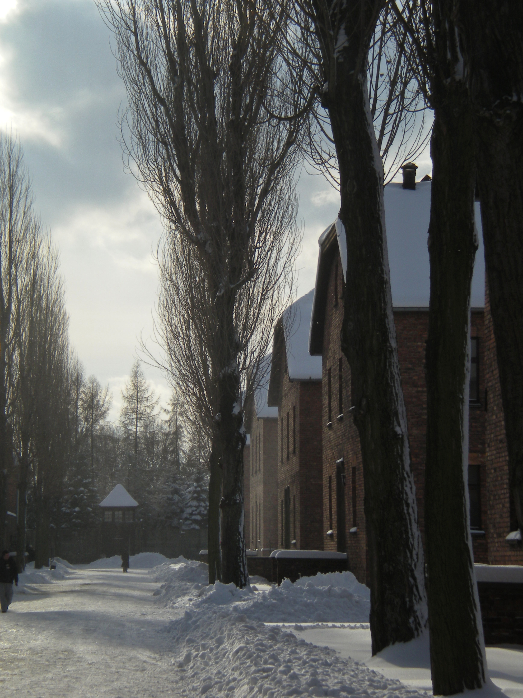 Slice of the blocks in Auschwitz I